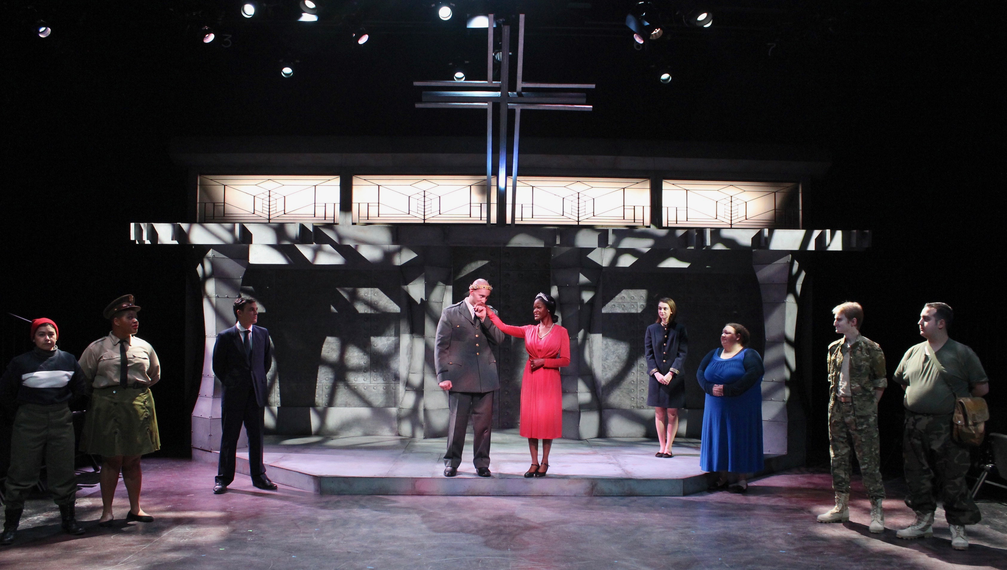 Uark Theatre